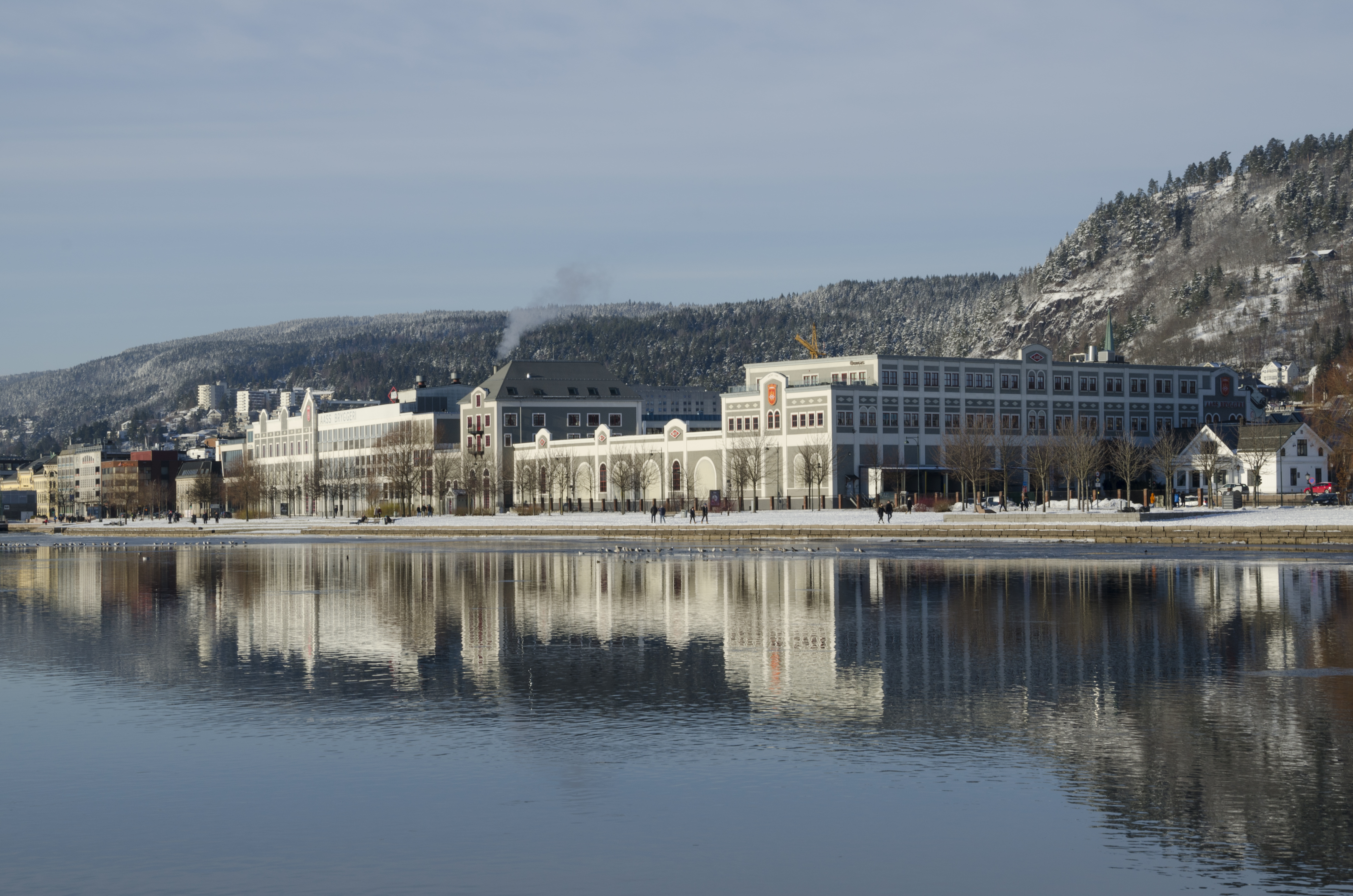 Aass brewery in february 2017.